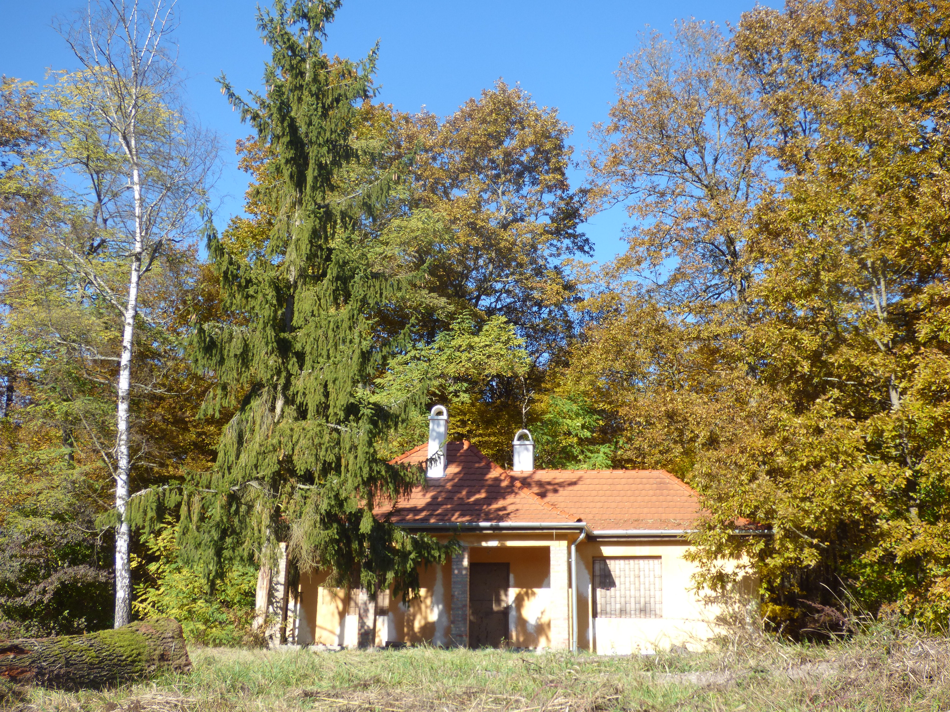 A Bükkipusztai erdészház